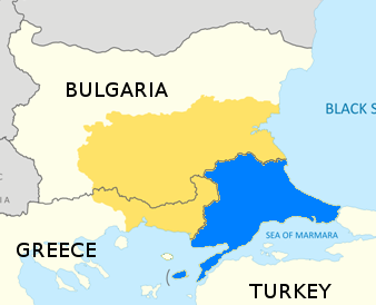 Eastern (Turkish) part of Thrace within its entirety.